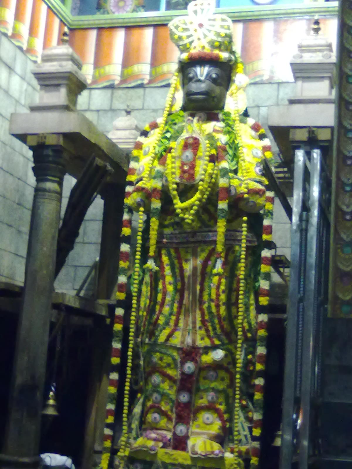 Its the picture of main idol of Lord Anjaneya of Namakkal. He is decorated with flowers